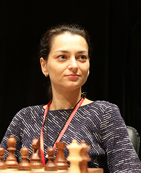 Alexandra Kosteniuk at Superfinal of the Russian Chess Championship, Satka, 2018